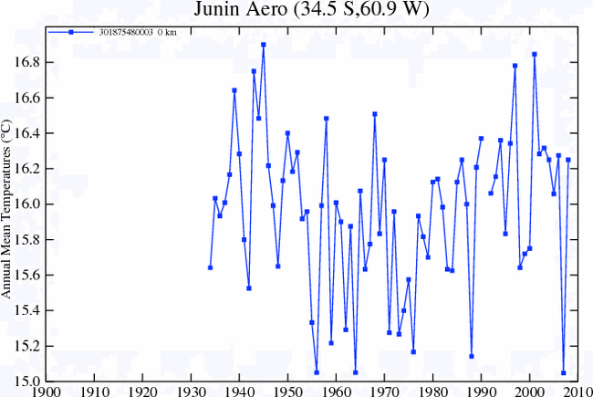 Climate graph of 1933 2008 air average temperaturas at city of Junin, Buenos Aires province, Argentina